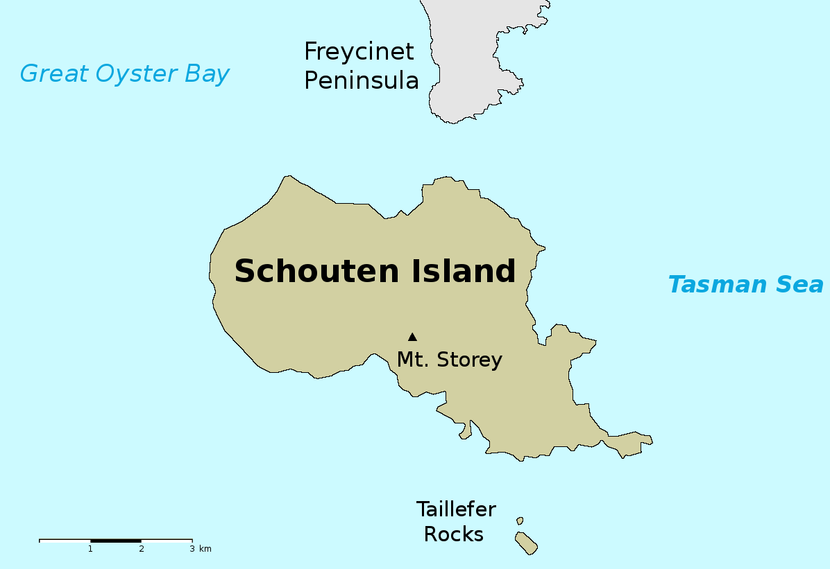 Map of Schouten Island, located on the Tasmanian east coast